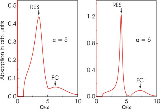 Created after